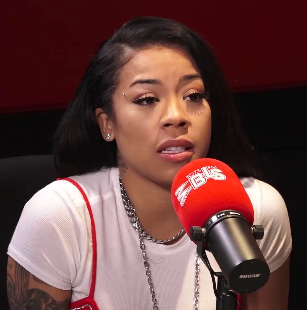 RnB singer Keyshia Cole during an interview, 2017.